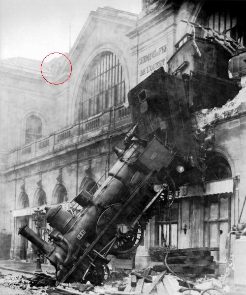 Train wreck at Montparnasse Station, Paris, France, 1895.